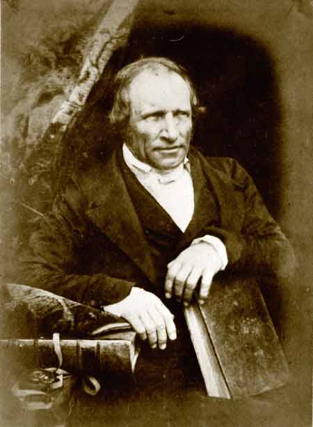 Calotype portrait of Rev. Dr. Alexander Keith (1781-1880)